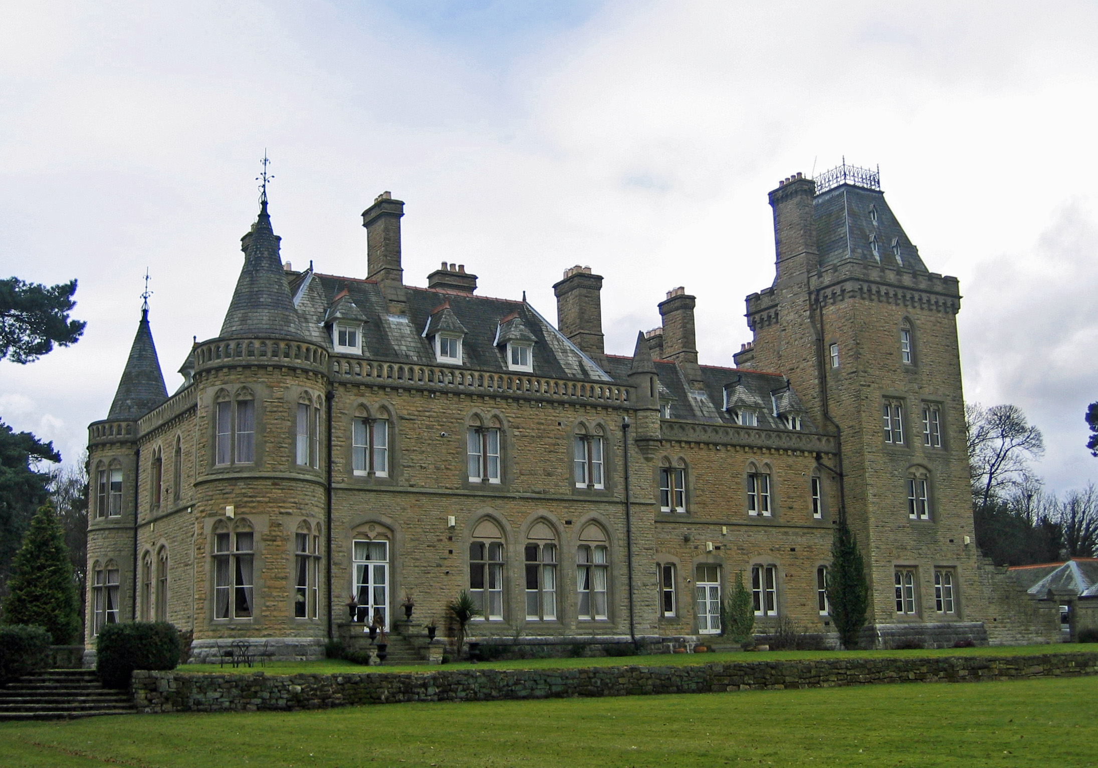 Photograph of the east front of Oakmere Hall